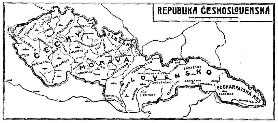 Map of the first Czechoslovak Republic in its administrative division until 1928 (in 1928 Moravia and Silesia were merged into one administrative unit - the Moravian-Silesian Land).